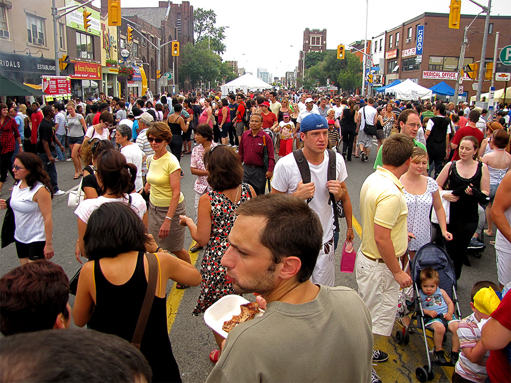 Taste of the Danforth 2009. Toronto, Canada.